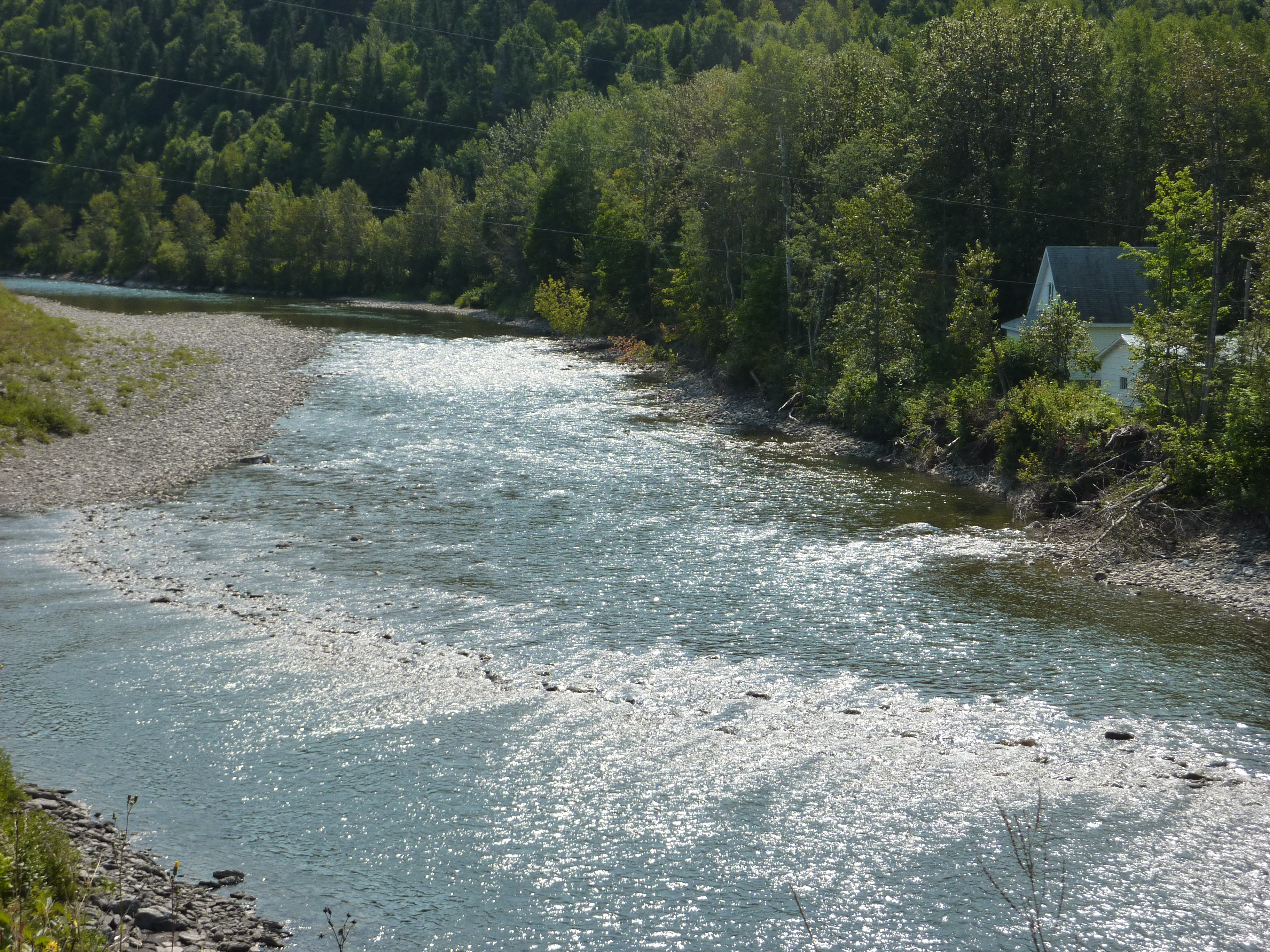 Matane River at Saint-René-de-Matane, Qc